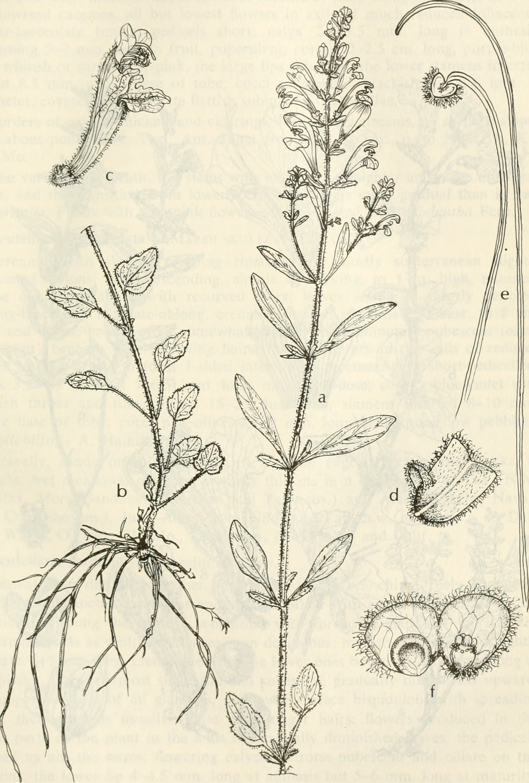 Title: Aquatic and wetland plants of southwestern United States Year: 1972 (1970s) Authors: Correll, Donovan Stewart, 1908-; Correll, Helen B Subjects: Aquatic plants -- Southwestern States; Wetland plants -- Southwestern States Publisher: [Washington Environmental Protection Agency; [For sale by the Supt. of Docs. , U. S. Govt. Print. Off. Text Appearing Before Image: ' Text Appearing After Image: Fig. 659: Scutellaria inlegrifolia: a and b, habit, x V2', c, flower, x 1; d, calyx, x 5; e, stamen and style, x 5; f, calyx opened to show nutlets on gynophore, x 5. (V. F.).